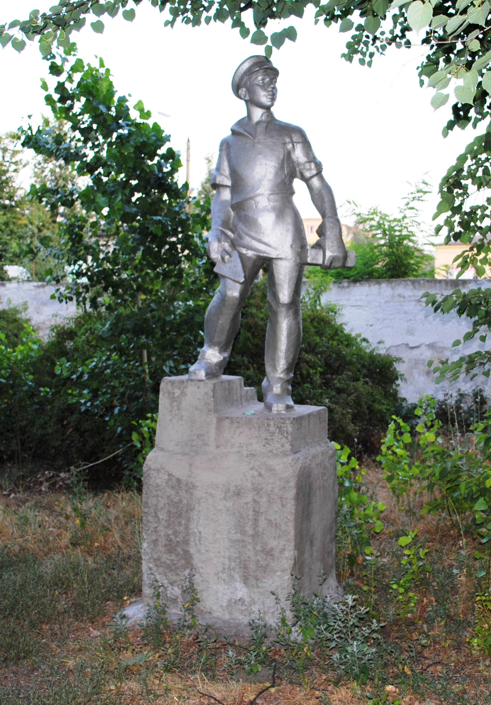 PTU